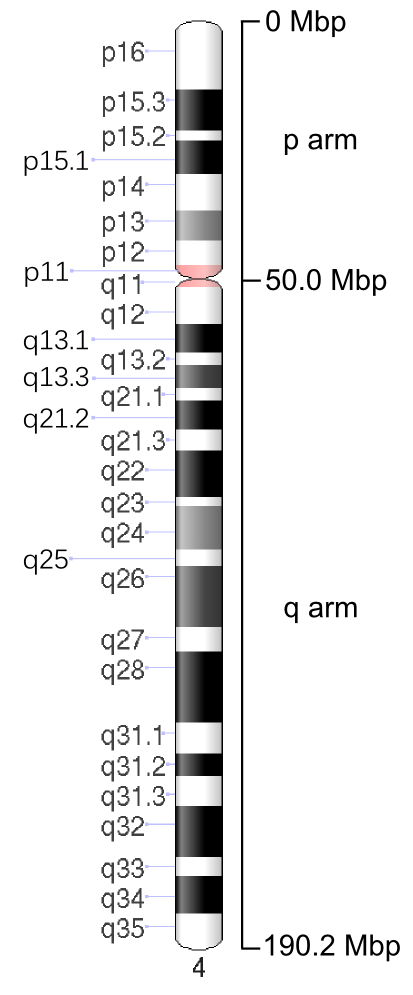 Ideogram of human chromosome 4. G-band, 550 bphs (bands per haploid set). Black and gray: Giemsa positive. Red: Centromere. Light blue: Variable region. Dark blue: Stalk. Mbp: Mega base pairs.